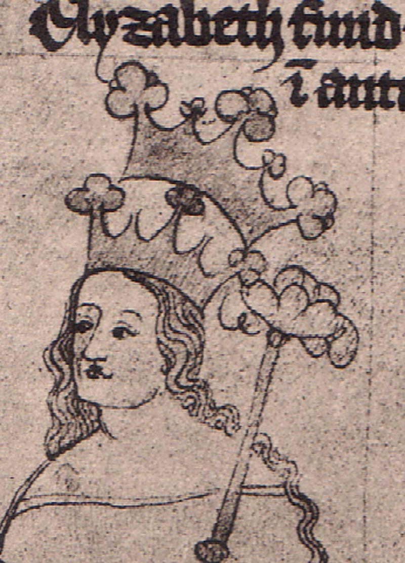 Elisabeth Ryksa of Poland